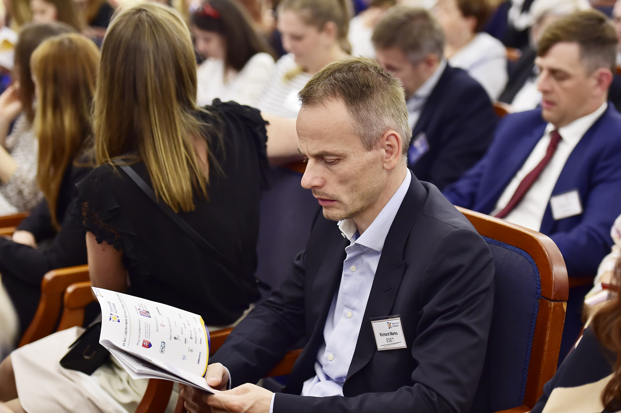 Richard Marko, Teach for Slovakia, October 2017